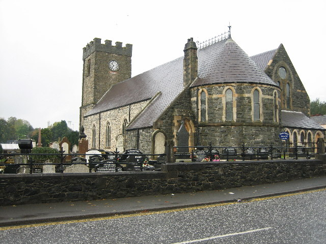 Dromore Cathedral. The Cathedral Church of Christ the Redeemer is built on a site of Christian activity going back to c.541. The present building dates largely from between 1868 and 1899.